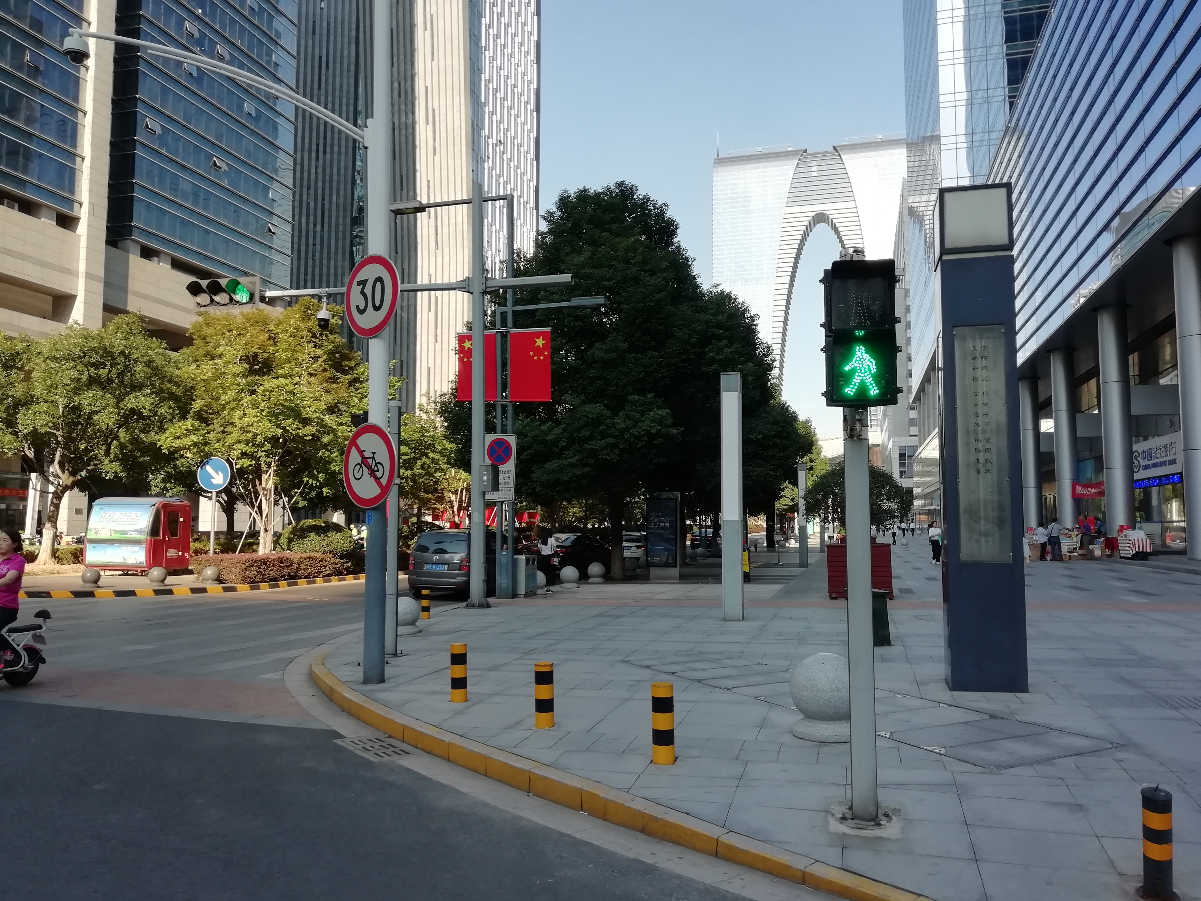 Two flags of China strung up with the road light on the road of Suzhou, to celebrate the National Day. 中文（中国大陆）: 悬挂于路灯上的两块中国国旗以庆祝国庆节，摄于苏州一道路上